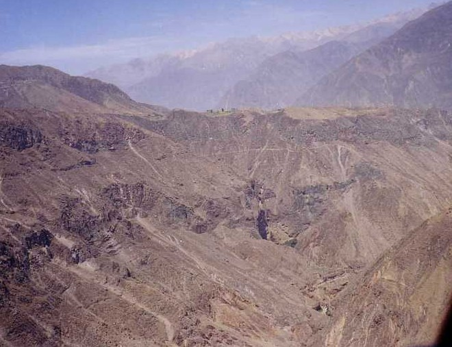 View into Colca canyon, as seen from paraglider